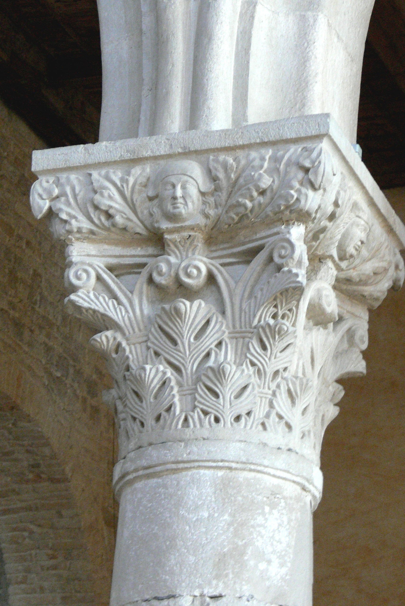 Patriarch´s basilica, Aquileia. Corinthian capital ( 14th century ).